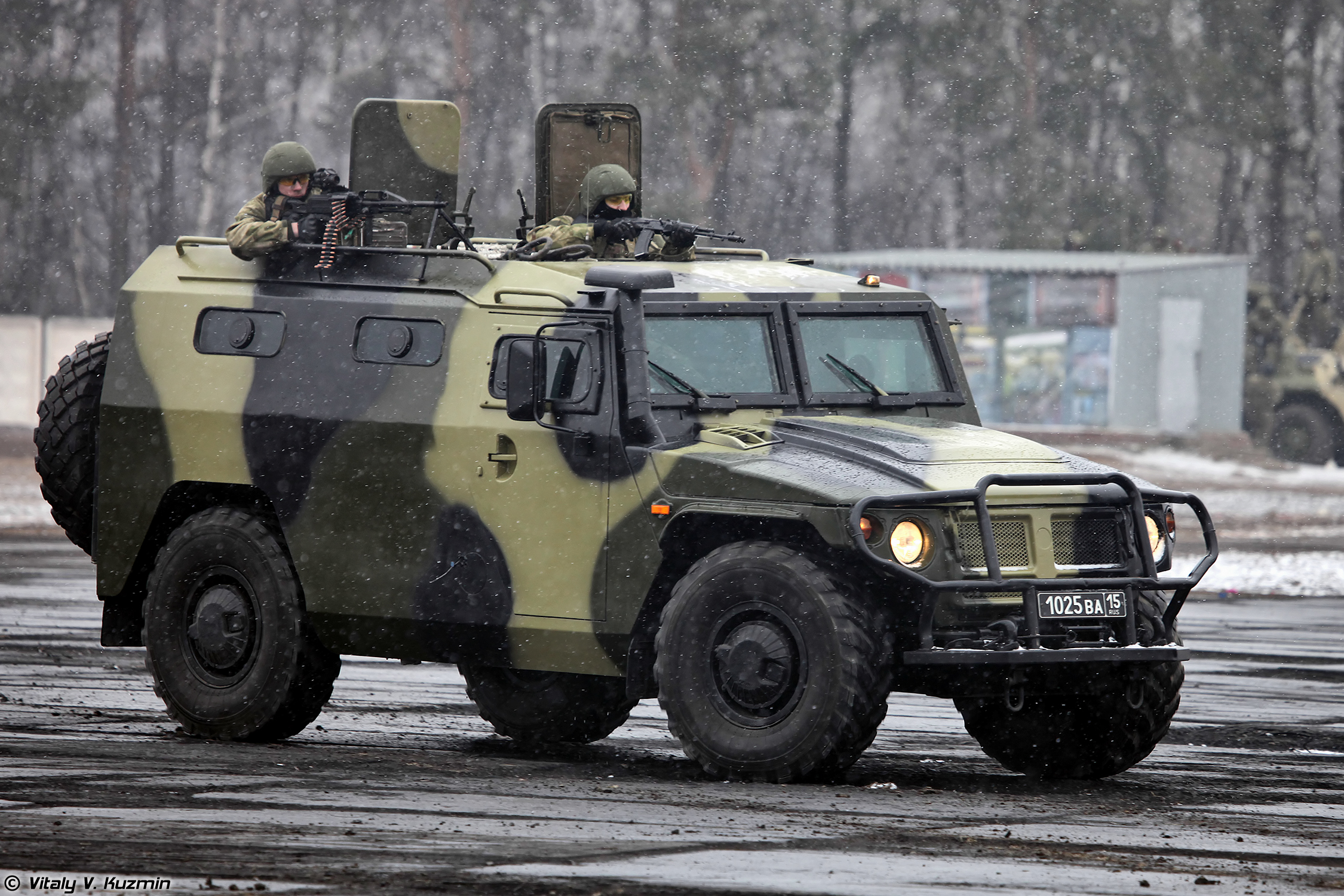 Demonstration of tactical shooting of 604th Special Purpose Center operators under cover of GAZ-233036 SPM-2 armored vehicle and armored shields